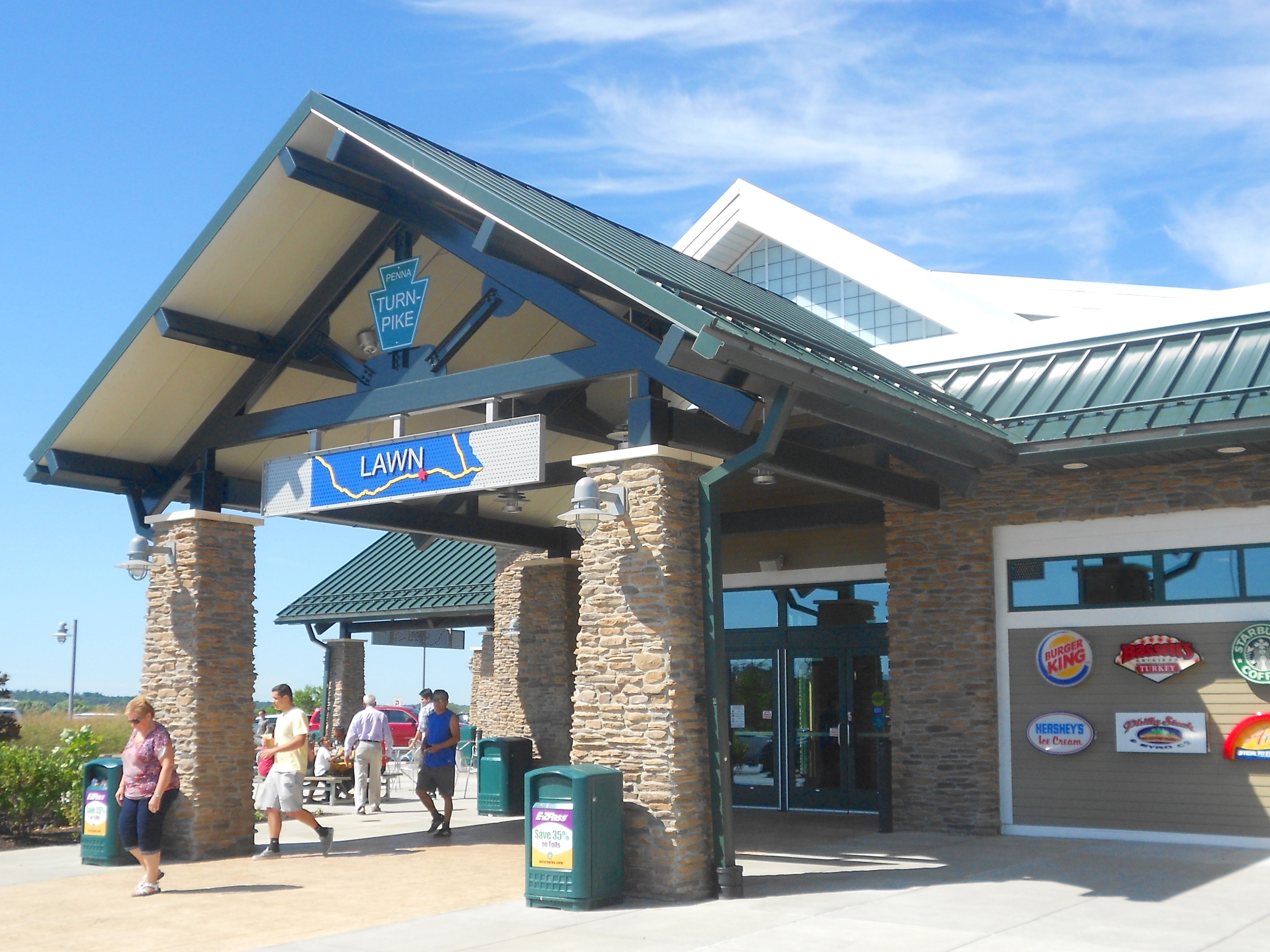 Lawn Reststop on the Pennsylvania Turnpike (I-76) in Dauphin County, PA. Note that the town of Lawn is in Lebanon County, but that the reststop is just over the line into Dauphin County, as indicted by a sign on the turnpike